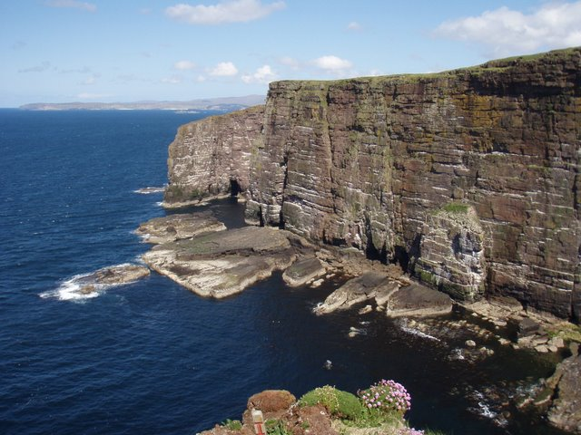 Cliffs on Handa Island north coast High rise apartments for breeding seabirds. White strips indicate long term usage.